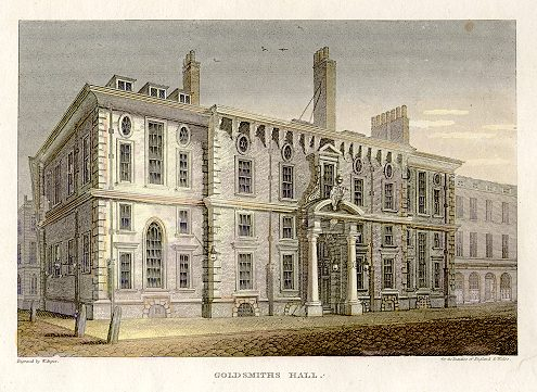 The second Goldsmiths' Hall c.1814 Engraved by W Angus.